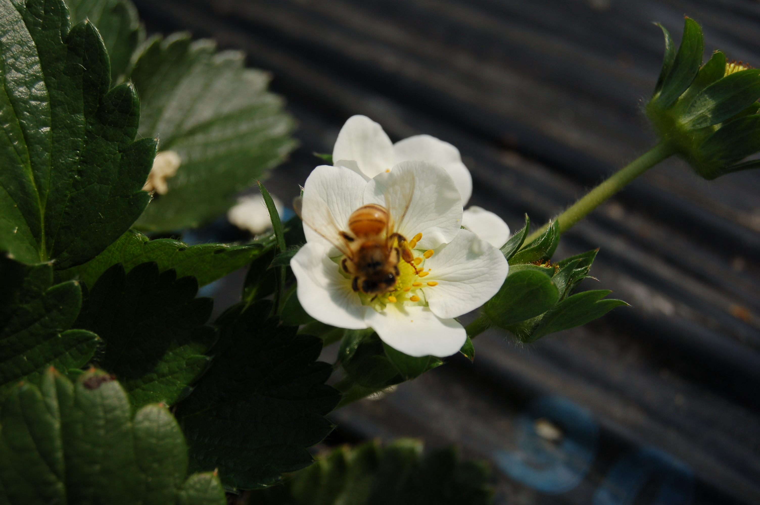 Strawberry flower and bee,in Oyama,Tochigi,Japan